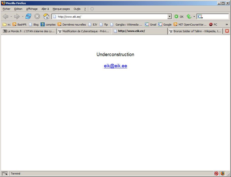 a screenshot of the eik.ee website under the first massive cyber-attacks between two states in the history.